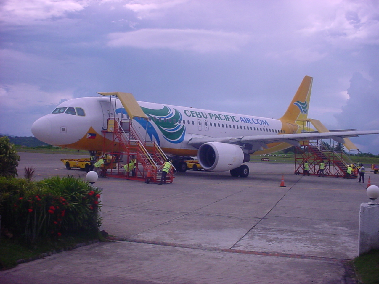 Airplane of Cebu Pacific Air at Lumbia Airport in Cagayan de Oro, Mindanao, Philippines.